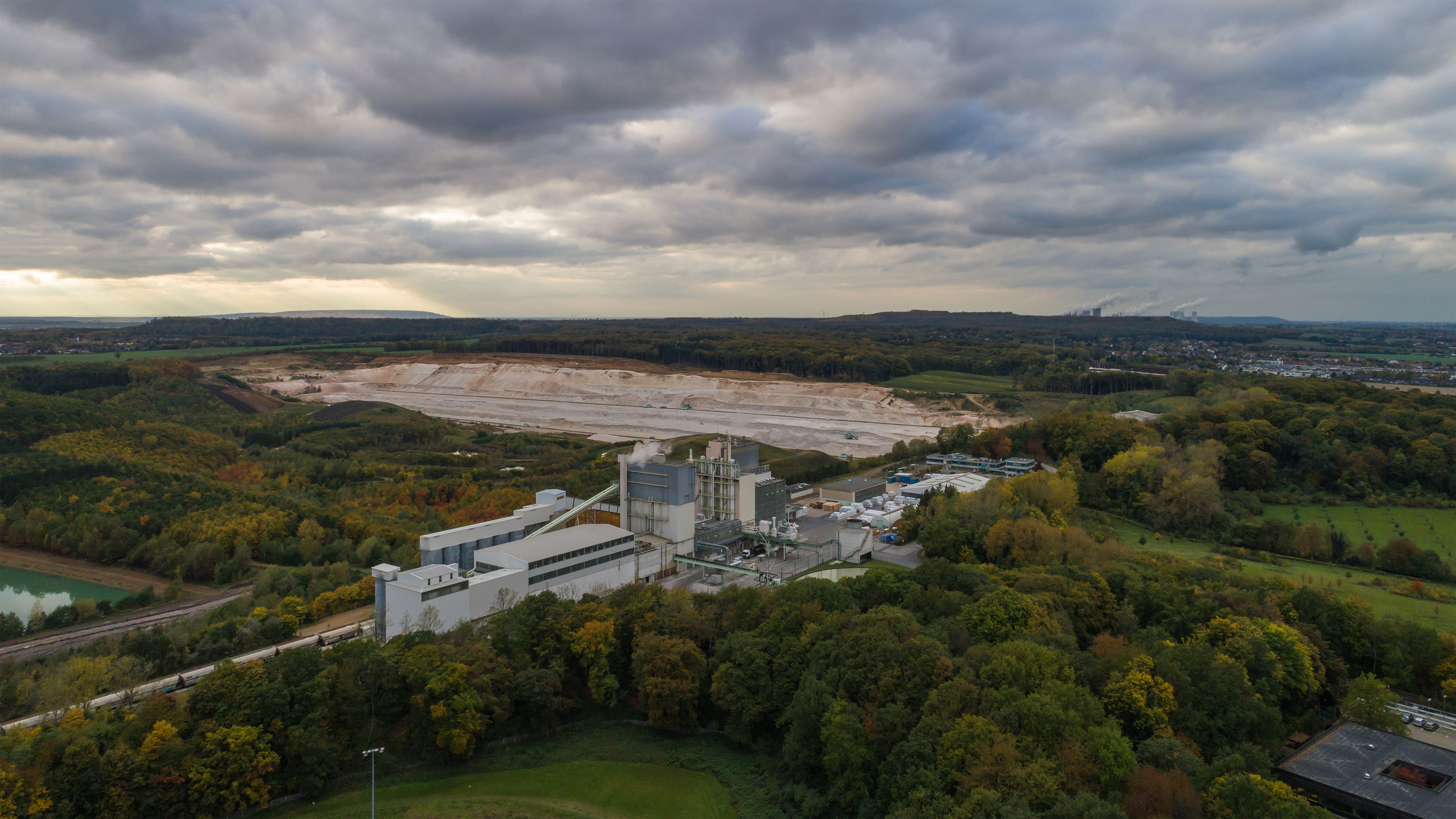 Aerial photo of Frechen, Rhein-Erft-Kreis (Germany)